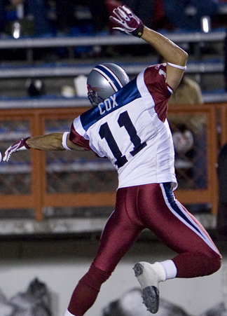 Touchdown!!!